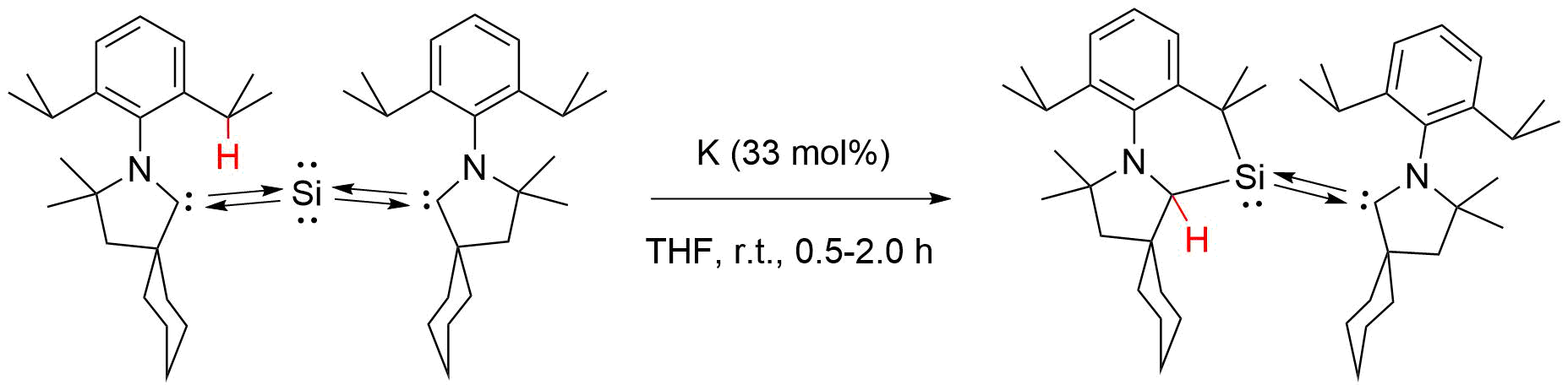 Synthesis schematic of a cyclic silylene, as reported by Roy et al. (